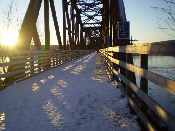 A view from the Northside of Fredericton of the railway bridge which was built in 1936. Taken by Miguel Serrano.